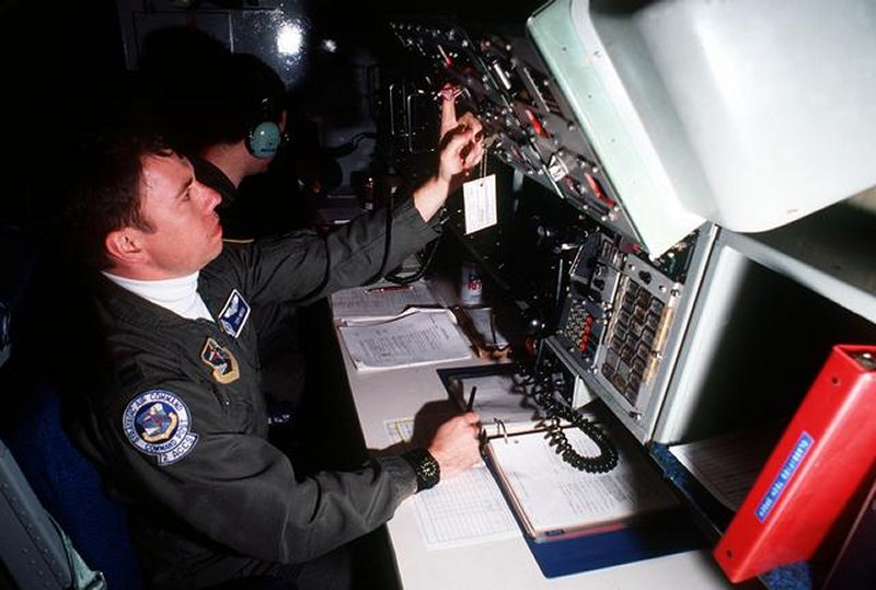 Inside the EC-135 Airborne Launch Control System